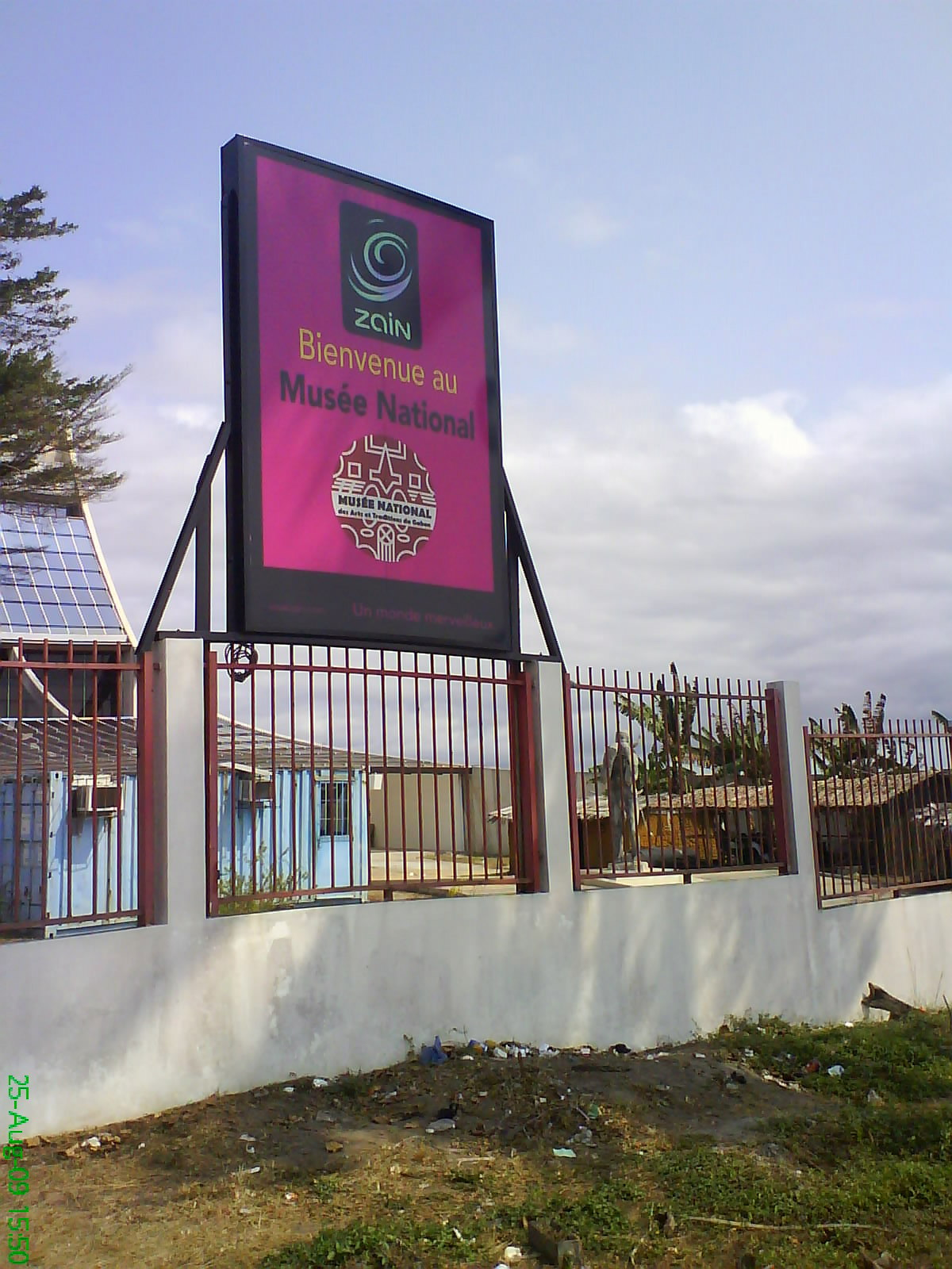 Musee National in Libreville, Gabon